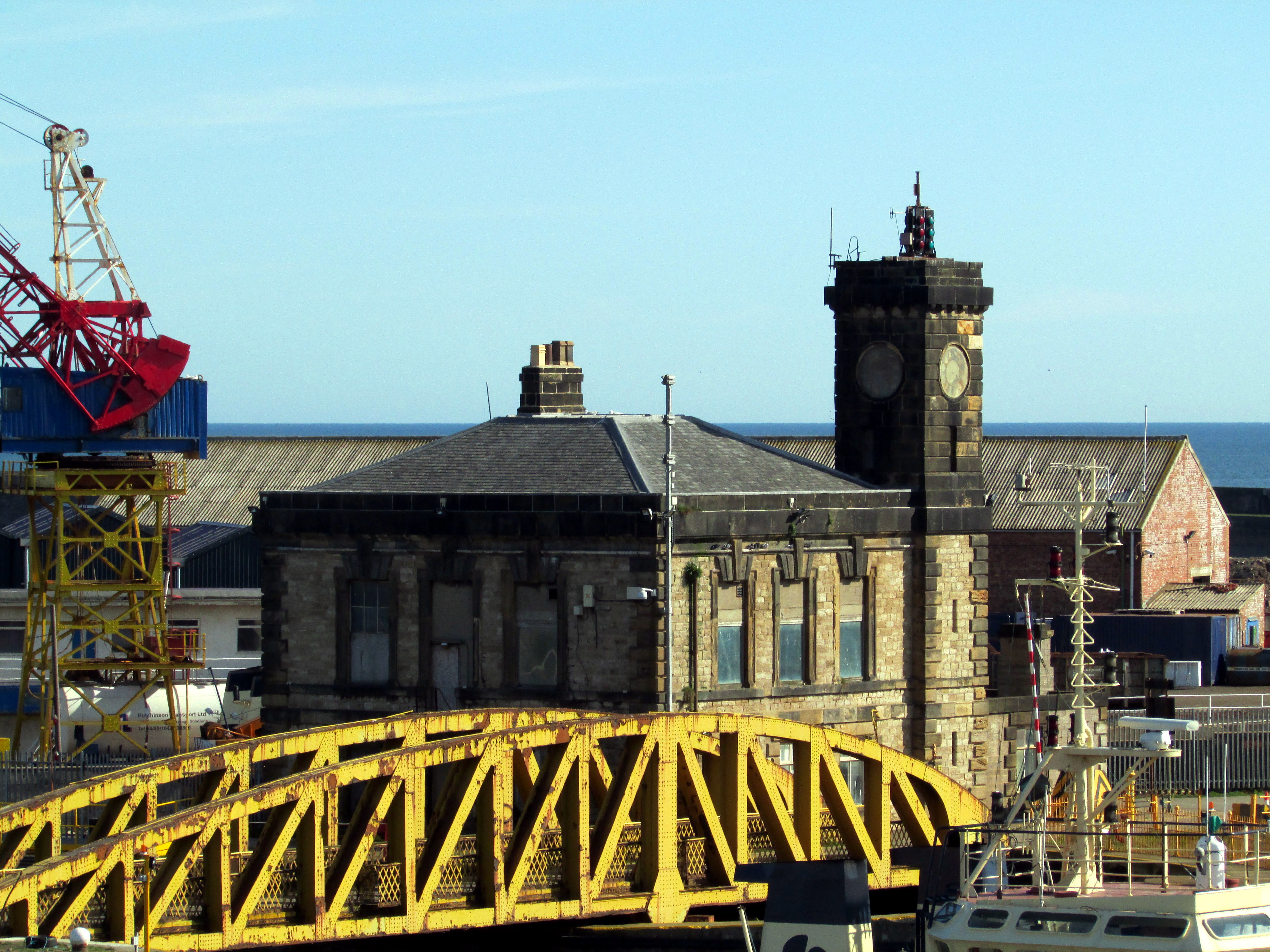 Designed by John Murray, the Company Engineer, and completed 1850-51.